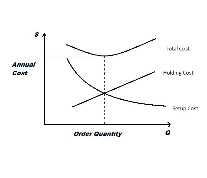 Economic Production Quantity graph